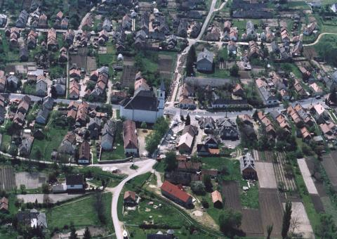 Monostorapáti, Hungary, aerialphotography